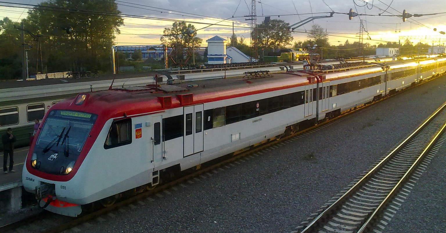 Electric multiple unit ED4MKM-0155 as the express Moscow-Vladimir. Petushki station.